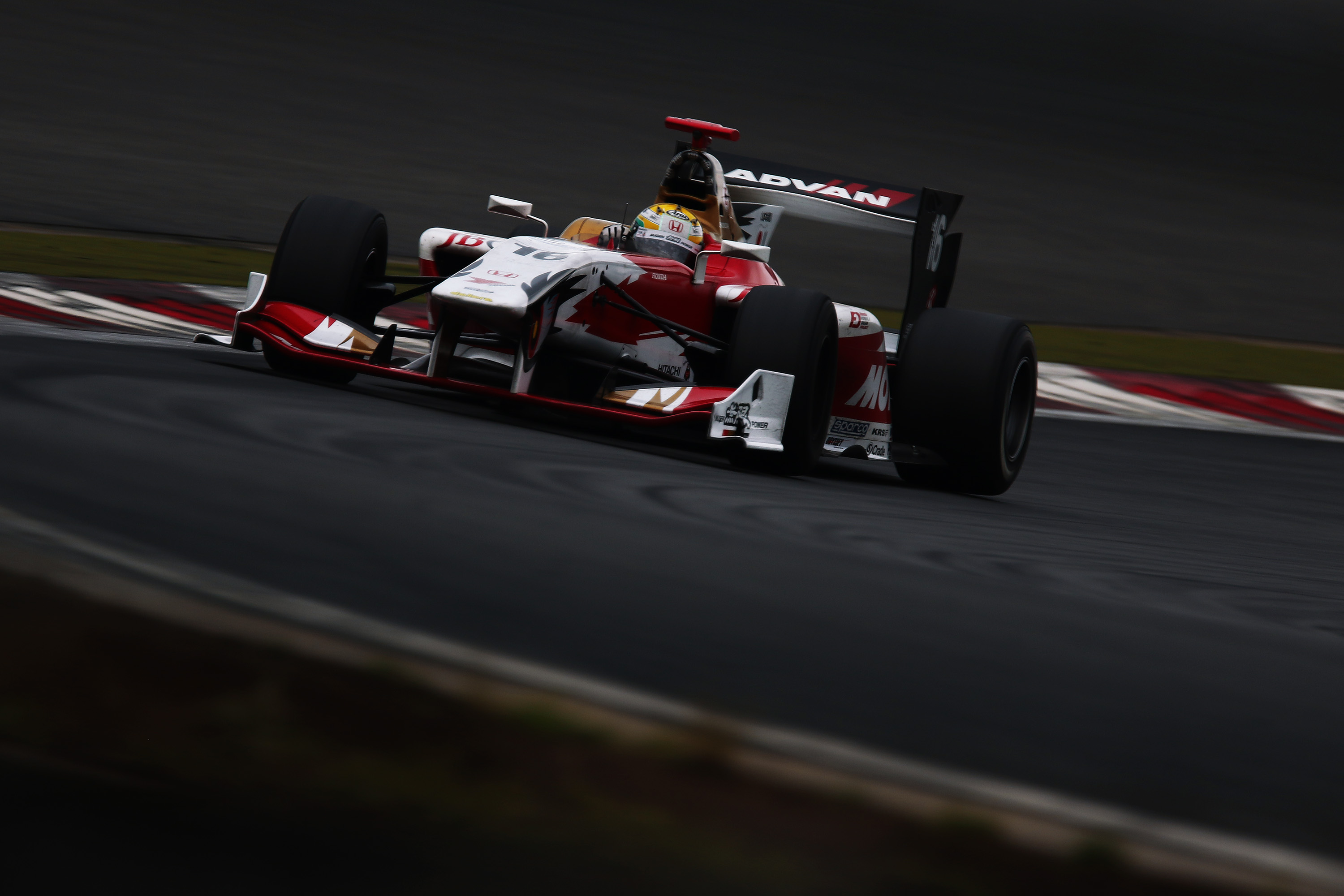 2016 Super Formula Championship, Fuji Speedway.